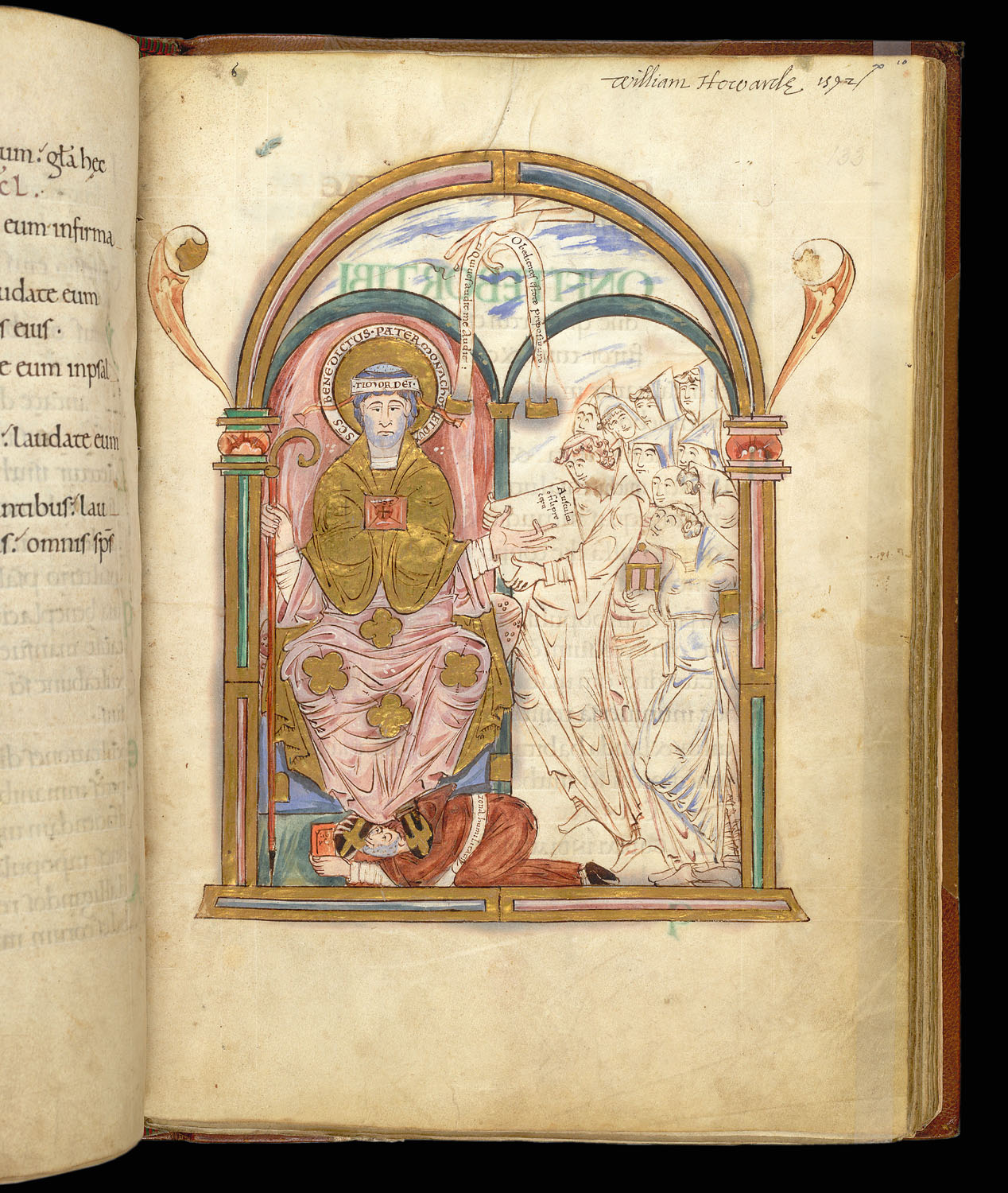 Arundel psalter f133r Eadui Basan offering the rule of Bendictus to the throned Benedictus